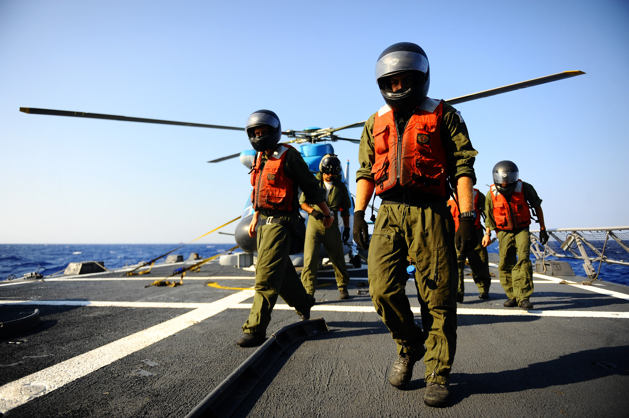 May 7, 2012 The Israeli and Greek Navies joined forces and put their cooperation to the test last May, when the two armies conducted a joint-drill near the Island of Piraeus. Photograph by Staff Sgt. Ori Shifrin, IDF Spokesperson's unit. The Israel Defense Forces Facebook • blog • Twitter